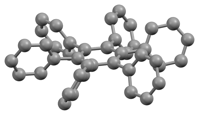 Structure of hexaphenylbenzene. Coordinates used to generate this molecule from (1968). "The crystal structure of a modification of hexaphenylbenzene". Acta Crystallographica, Section B: Structural Crystallography and Crystal Chemistry 24 (10): 1277. are as follows: c(1) 2.533 8.451 1.323 c(2) 2.603 9.383 0.277 c(3) 2.495 8.942 -1.047 c(4) 2.306 7.604 -1.325 c(5) 2.176 6.655 -0.306 c(6) 2.268 7.097 1.052 C(1A) 2.742 8.889 2.751 C(2A) 1.838 9.687 3.412 C(3A) 2.102 10.063 4.750 C(4A) 3.269 9.617 5.382 C(5A) 4.161 8.836 4.704 C(6A) 3.904 8.452 3.388 C(1B) 2.823 10.819 0.588 C(2B) 1.742 11.717 0.319 C(3B) 1.984 13.120 0.677 C(4B) 3.193 13.492 1.262 C(5B) 4.248 12.573 1.478 C(6B) 4.027 11.235 1.152 C(1C) 2.584 9.935 -2.184 C(2C) 1.474 10.144 -3.015 C(3C) 1.542 11.054 -4.049 C(4C) 2.705 11.819 -4.250 C(5C) 3.808 11.627 -3.407 C(6C) 3.748 10.684 -2.375 C(1D) 2.350 7.138 -2.783 C(2D) 1.187 6.717 -3.412 C(3D) 1.208 6.361 -4.771 C(4D) 2.425 6.464 -5.456 C(5D) 3.635 6.853 -4.804 C(6D) 3.568 7.200 -3.465 C(1E) 1.930 5.231 -0.591 C(2E) 0.714 4.639 -0.225 C(3E) 0.487 3.295 -0.489 C(4E) 1.437 2.528 -1.125 C(5E) 2.671 3.088 -1.480 C(6E) 2.916 4.455 -1.215 C(1F) 2.046 6.128 2.152 C(2F) 0.940 6.275 2.990 C(3F) 0.692 5.368 4.018 C(4F) 1.616 4.307 4.243 C(5F) 2.754 4.191 3.427 C(6F) 2.951 5.081 2.373